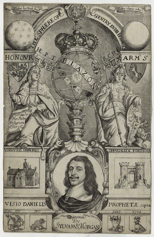 Etching of Sylvanus Morgan by Richard Gaywood after Unknown artist